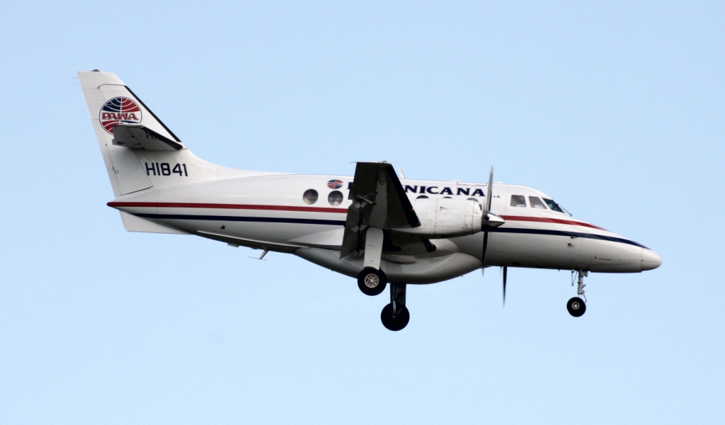 PAWA / Jetstream 31 / HI845 / TJBQ